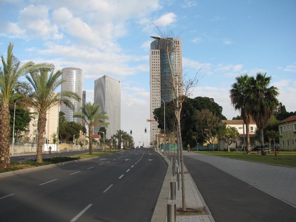 Kaplan street renewed and open in Tel - Aviv